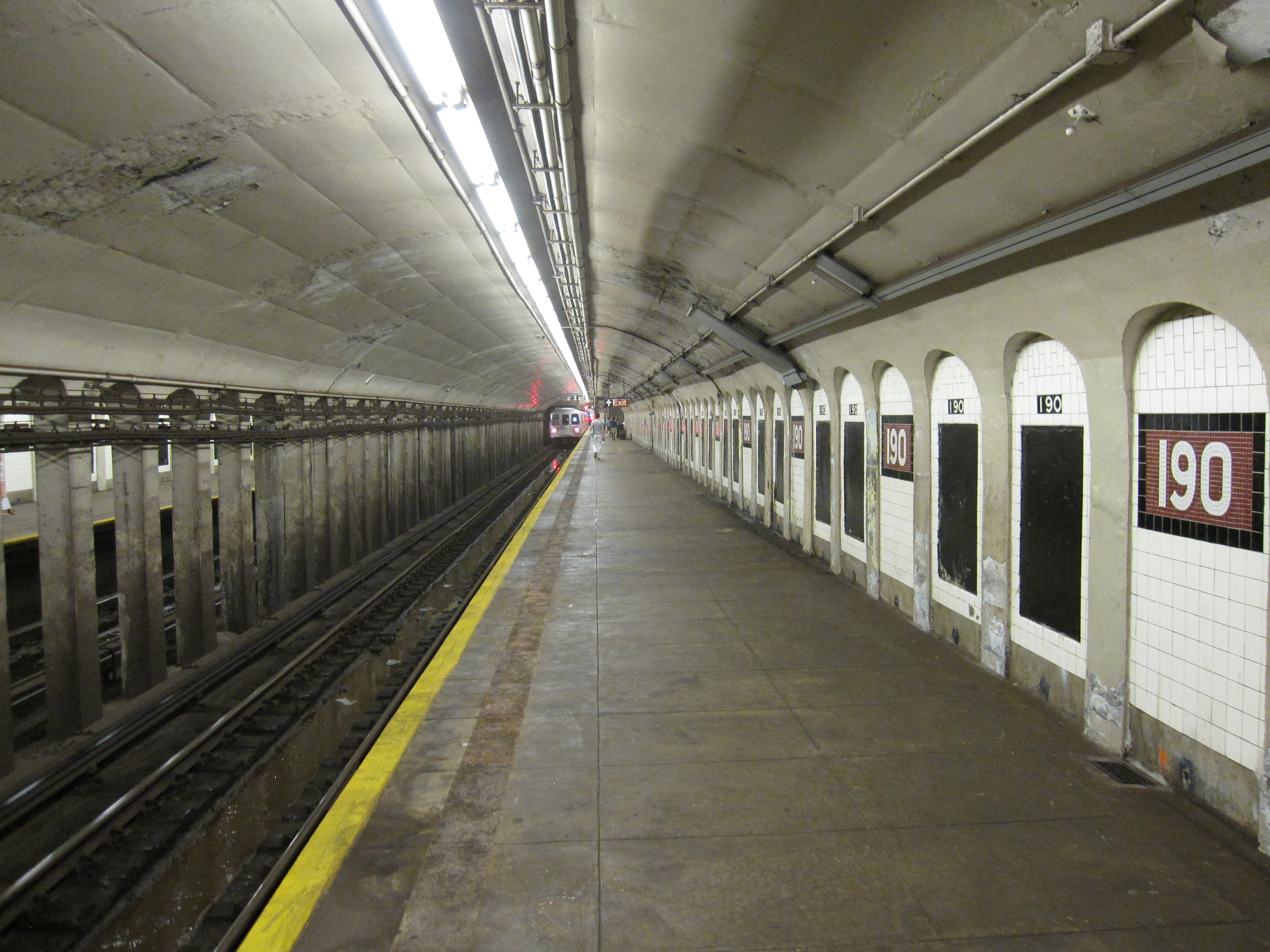 190th Street (IND Eighth Avenue Line)